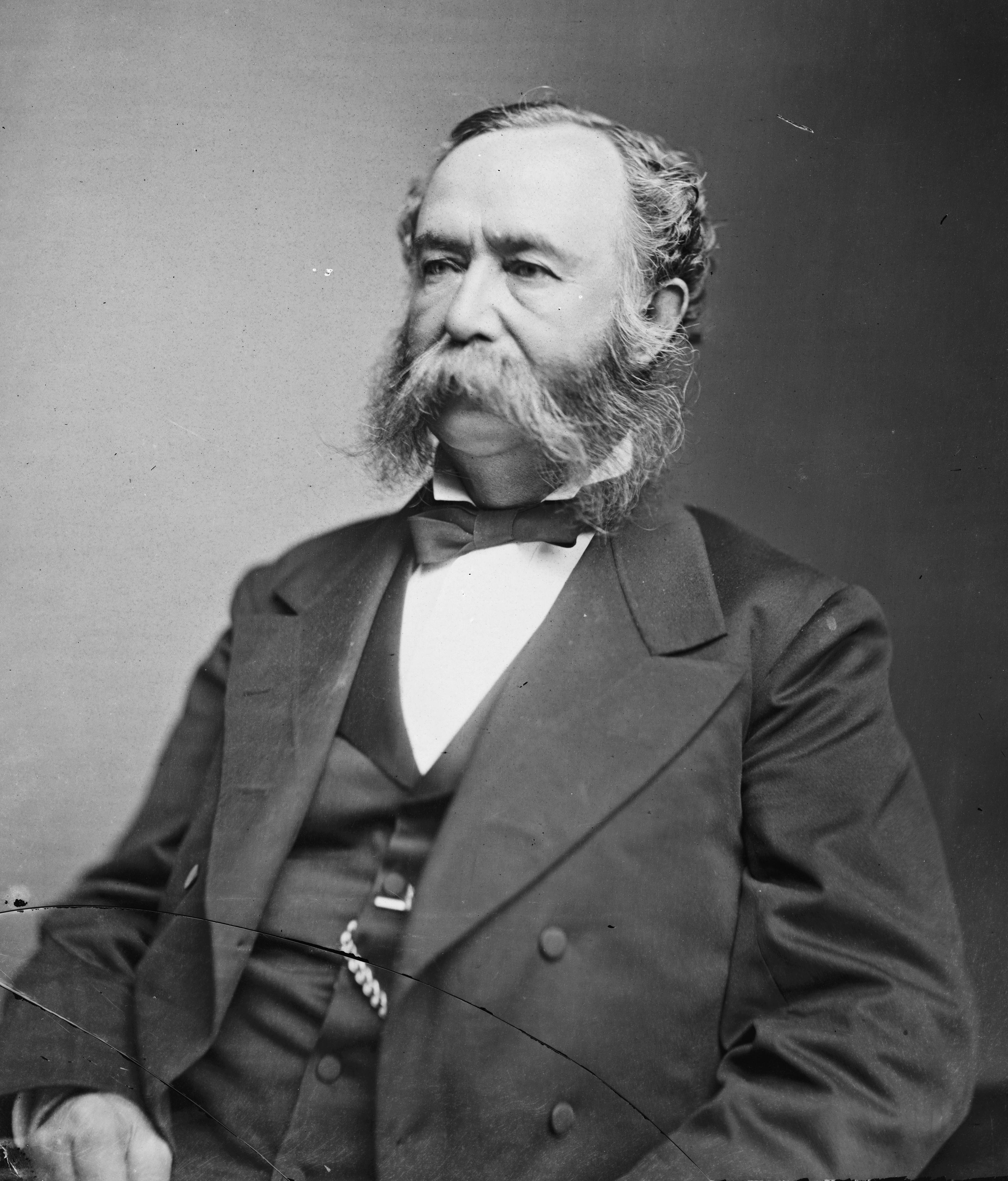 Wade Hampton III. Library of Congress description: "Hampton, Hon. Wade, Senator from S.C. (General in Confederate Army)"